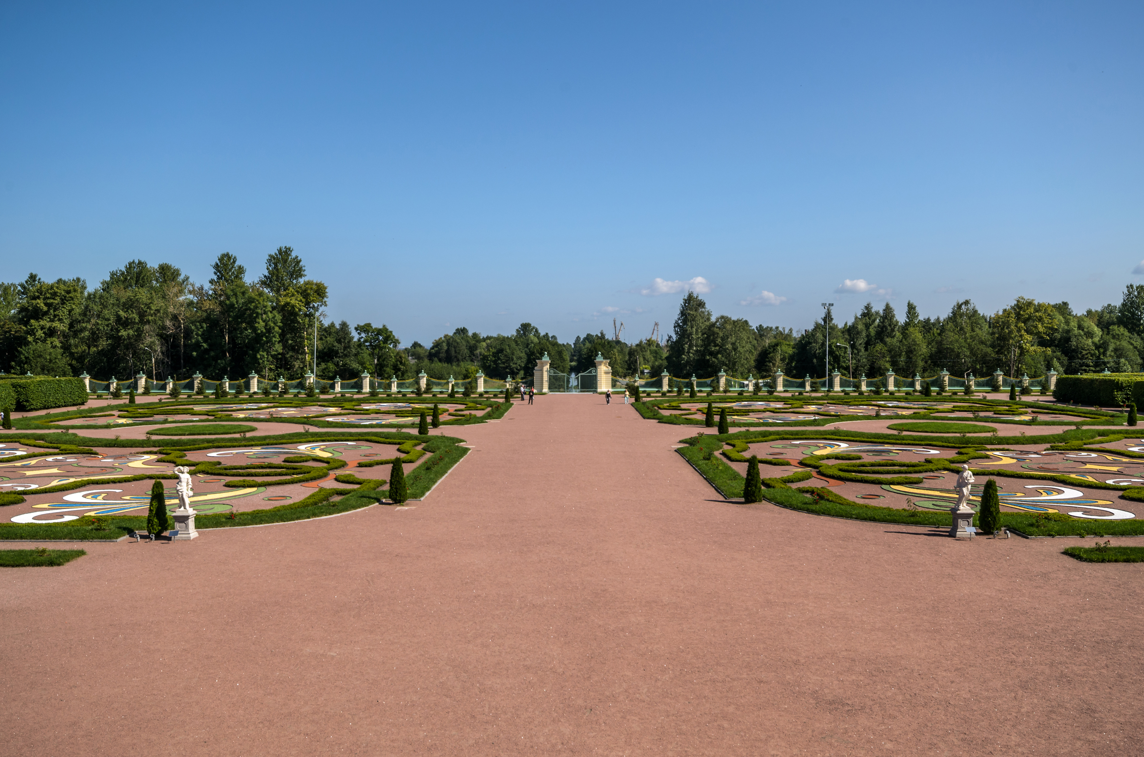 Lower Garden of Oranienbaum